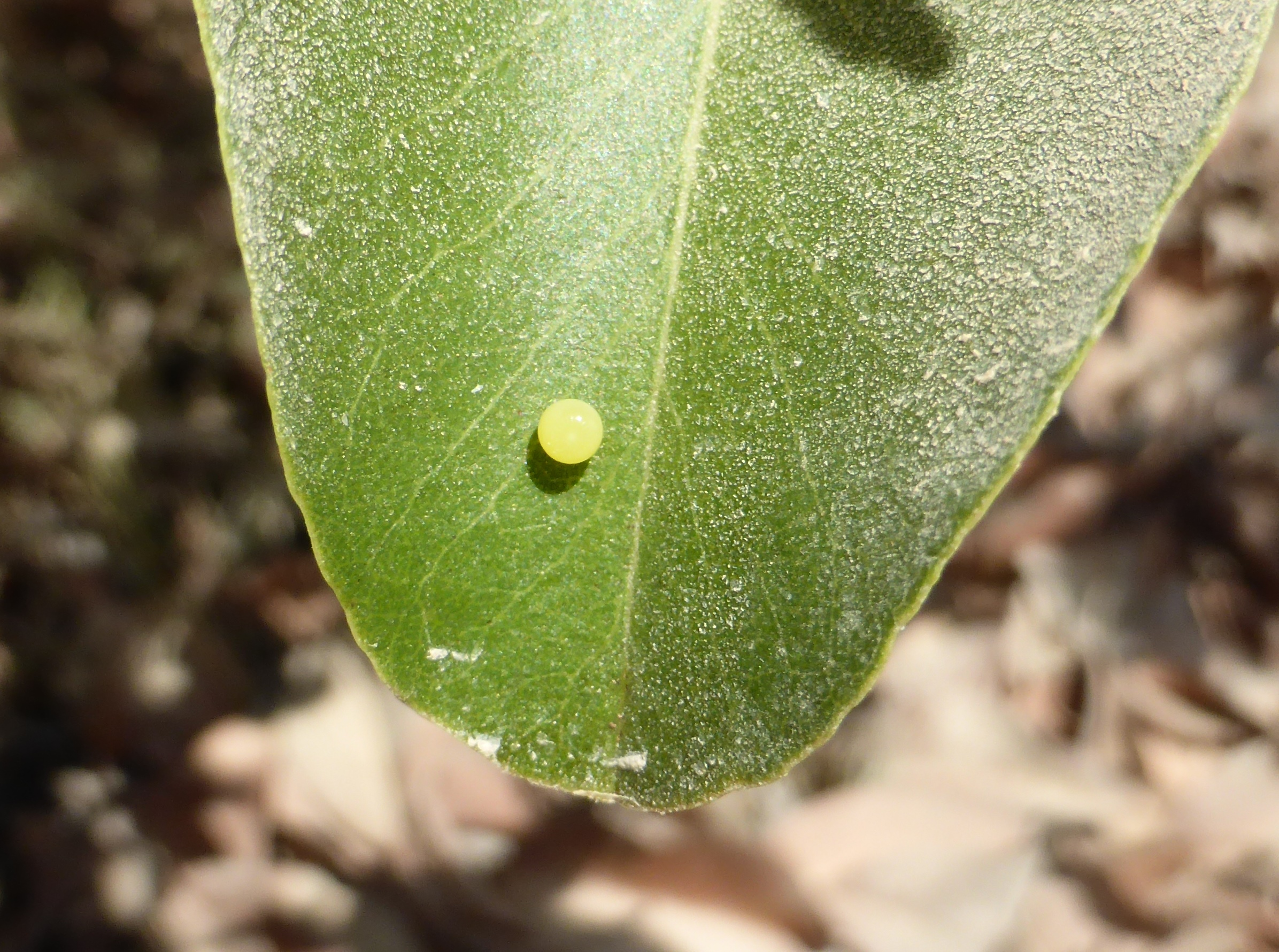 Charaxes jasius egg, immidiately after laying